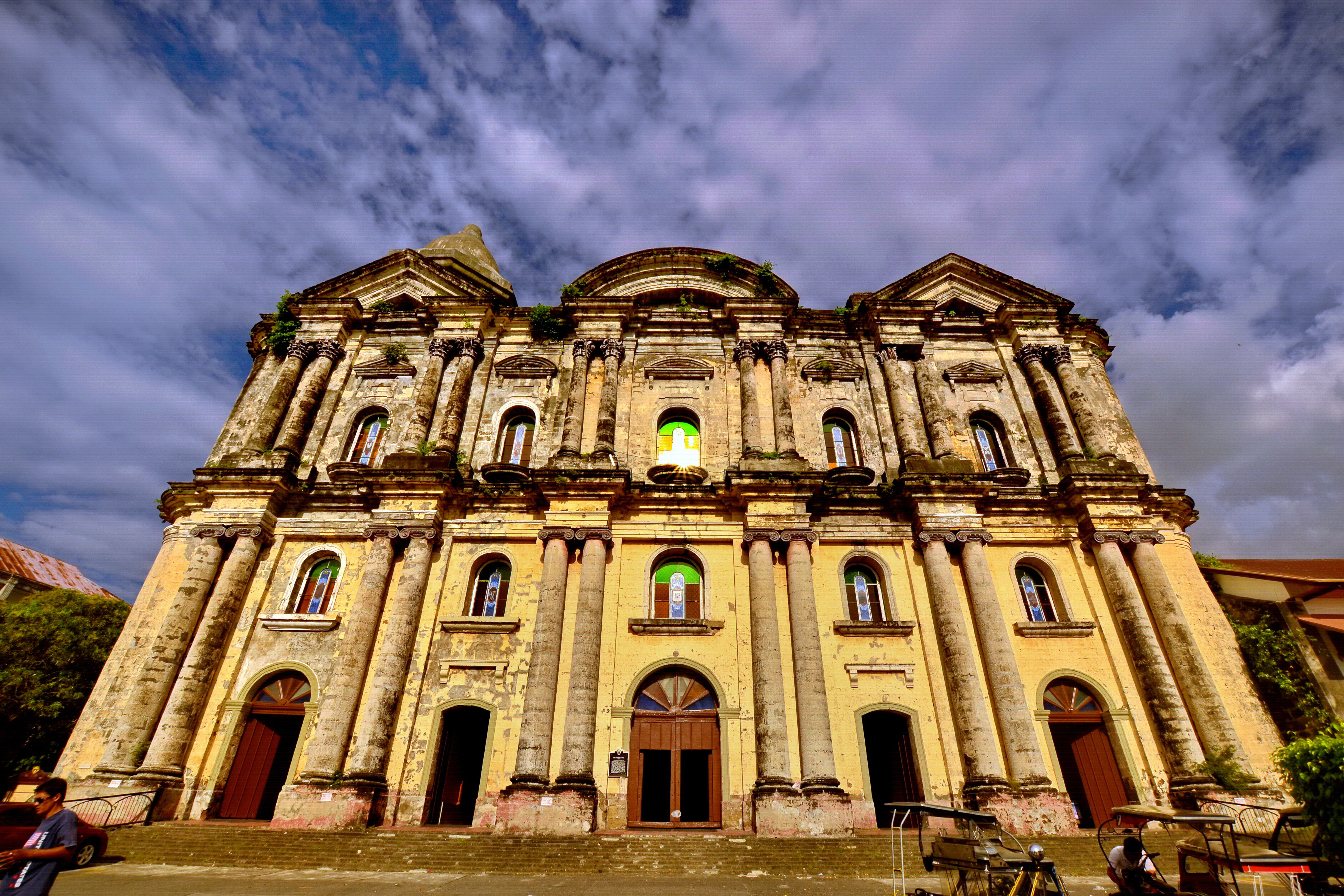 Basilica de San Martin de Tours, Taal, Batangas